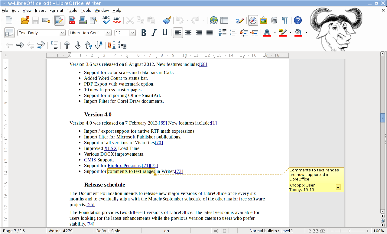 Screenshot of LibreOffice 4.0.0.3 in Knoppix 7.0.5. New LibreOffice features: Comments support for text ranges, and support for Firefox Personas. LibreOffice was downloaded and installed separately. The LXDE/Metacity window decoration theme is Mist The LibreOffice toolbar icon theme is Galaxy (LibreOffice default; although the default Knoppix/LibreOffice 3.5.4 icon theme is Tango) The Persona used is GNU - I, which is one of the very few Firefox personas licensed under GPL. The bulleted/numbered lists toolbar is positioned at the top of the window to allow more visibility for the Persona.